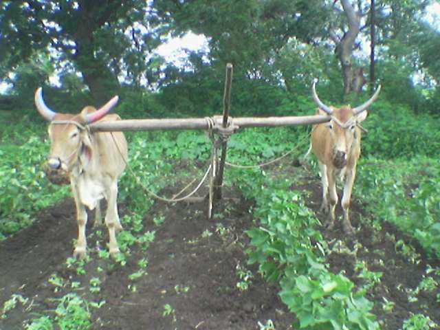 Black soil in farm 3 meters above lithosphere mantle. Place-3 Km south of Shahada, Maharashtra.